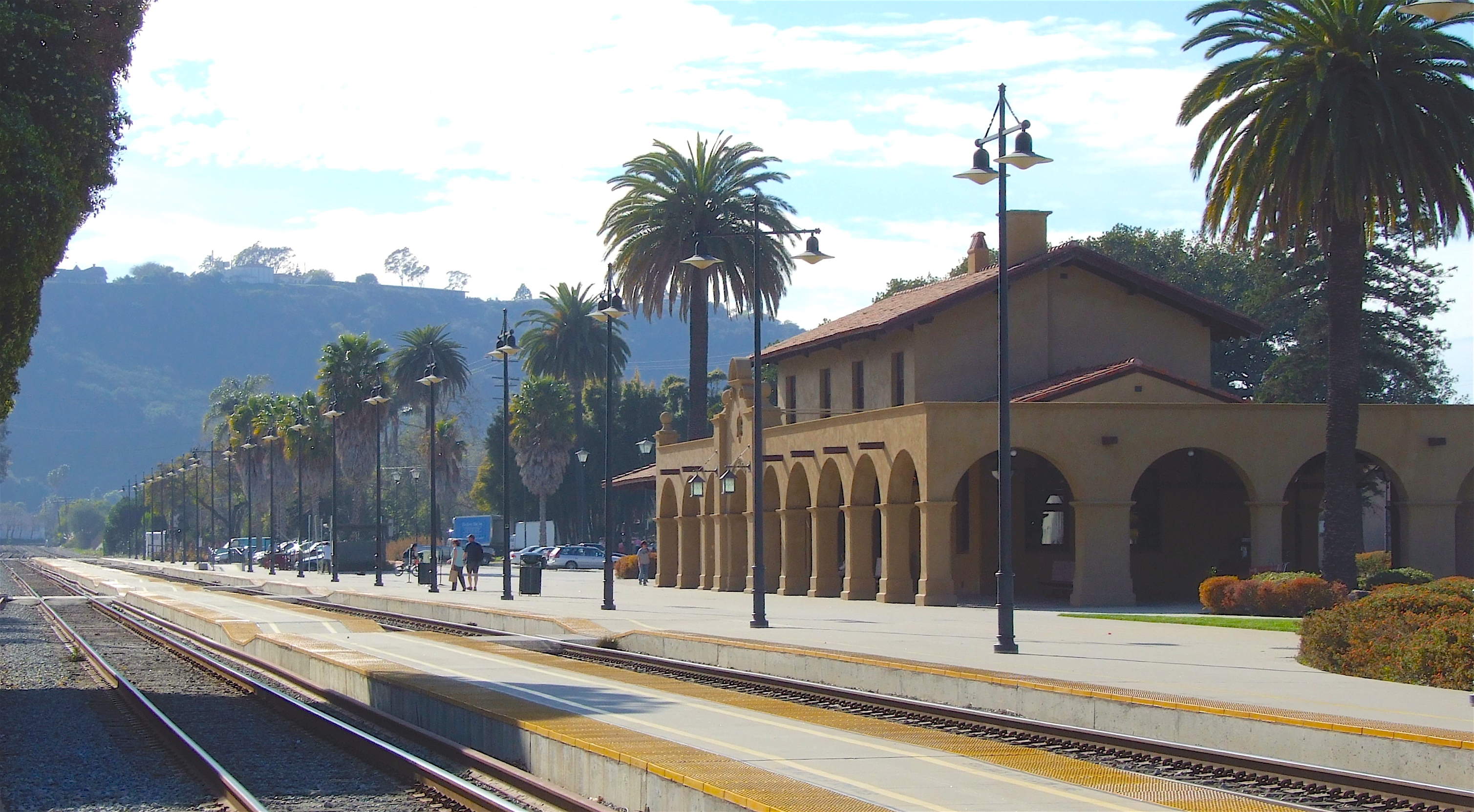 A view of Santa Barbara train station, California, looking west, on 7 March 2007. The station was built in 1902 by the Southern Pacific Railroad in the Spanish Mission Revival Style.